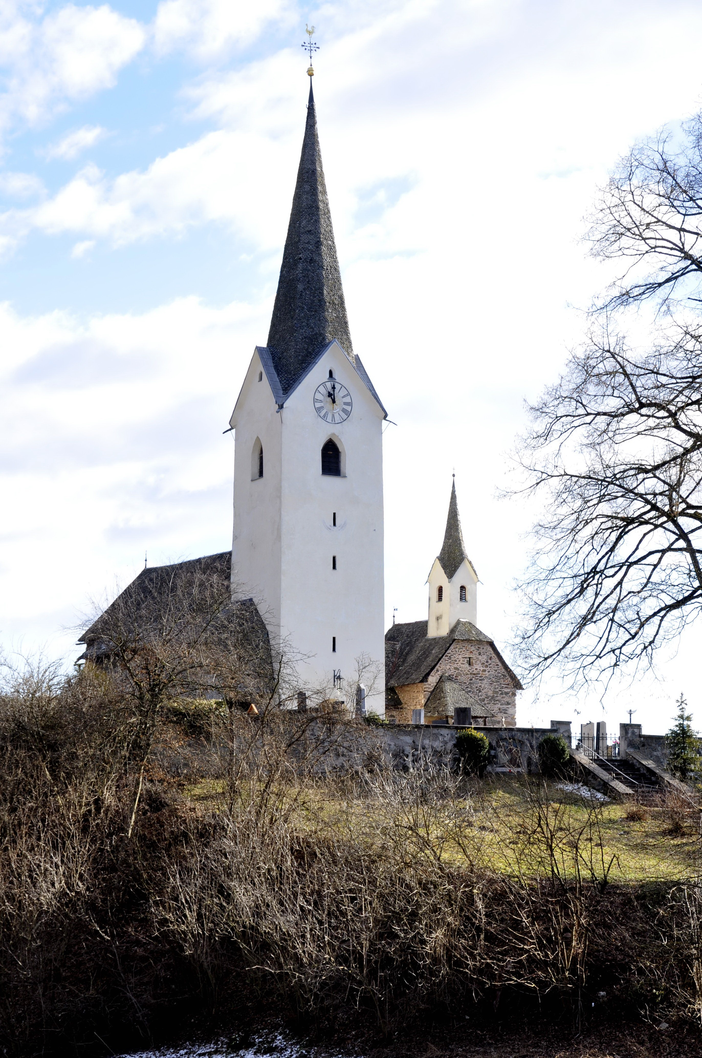 Parish church Saints Peter and Paul with Anne`s chapel on Pfalzstrasse in Karnburg, market town Maria Saal, district Klagenfurt Land, Carinthia, Austria, EU